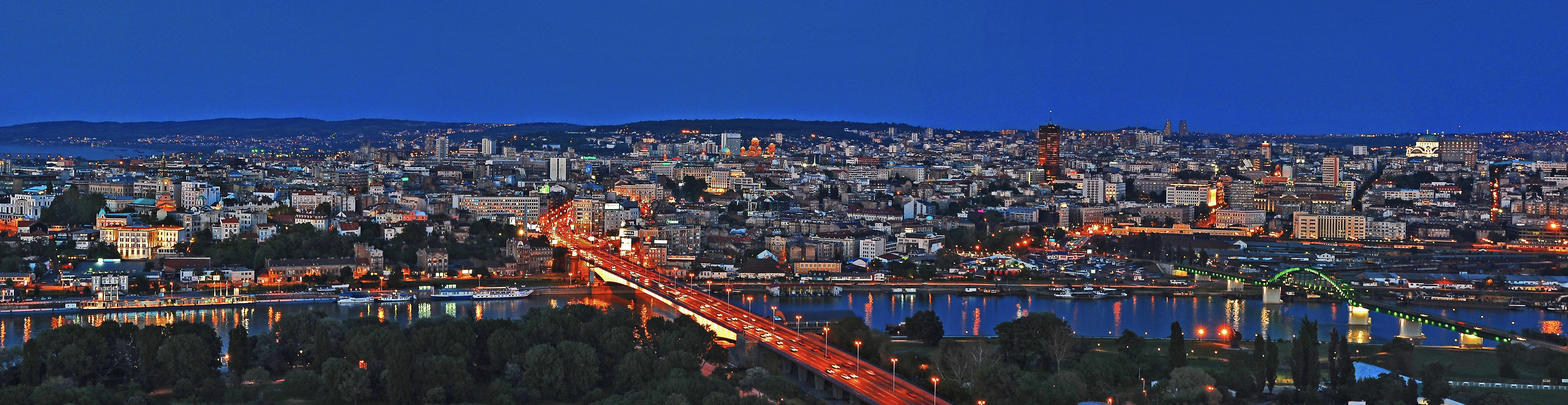 PANORAMA BEOGRADA SA PC "USCE" (Old Belgrade Panorama From The Bilding "Usce")